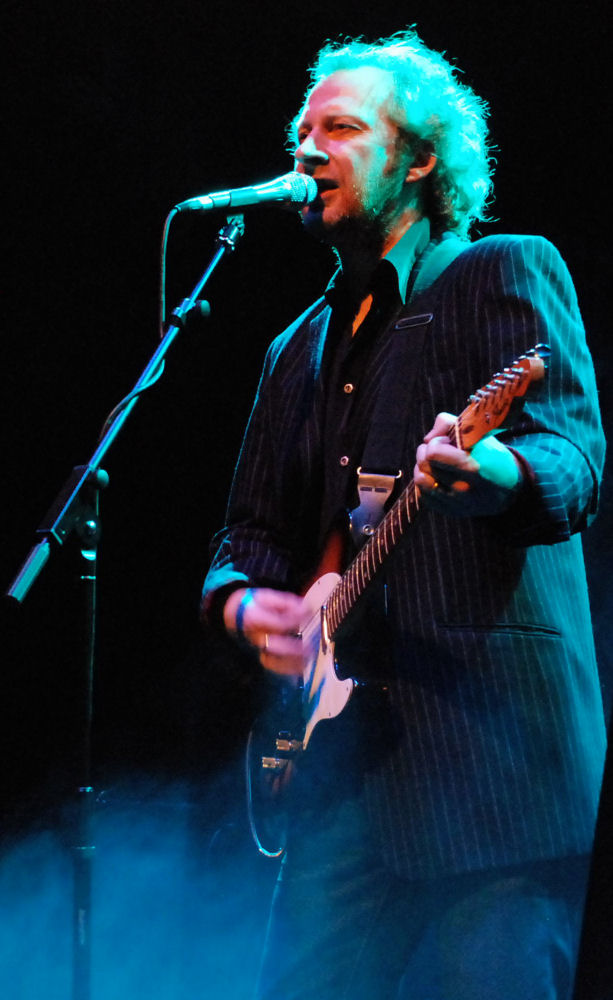 Colin Vearncombe of the band, Black. Taken at Pacific Road, Birkenhead on 22 March 2007. Black, the band that brought you Wonderful Life (easily one of the best albums of 1987) and The Christians were performing on the same night. I am a fan of both bands and was treated to a great night of 80's Liverpool Music at it's best!!! The band was called Black, background was black, I was wearing a black jacket and Black Trousers and Black Shoes and Socks and using a black camera with a black lens! (Honest!!!) Just a point to note: The start of the Wonderful Life video was filmed in New Brighton, Wallasey. Wallasey is my home town and is of course the greatest town on earth (apart from Grimsby)